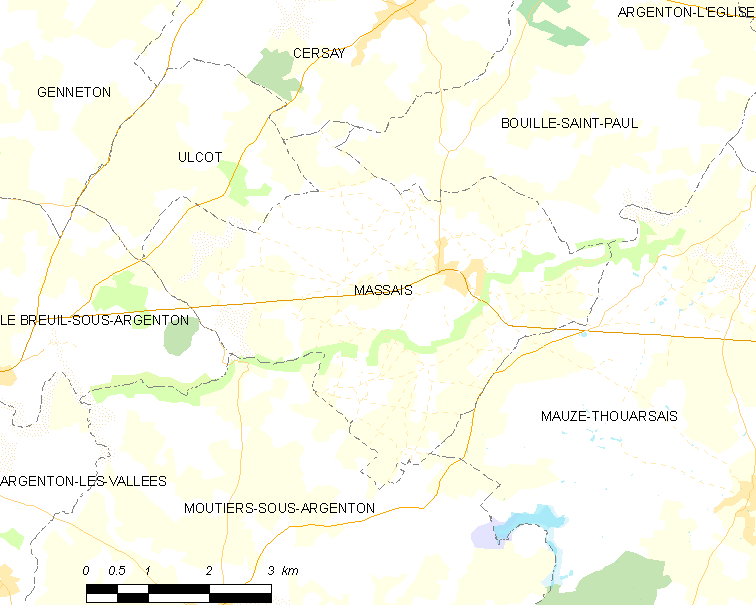 Map of French municipality Massais